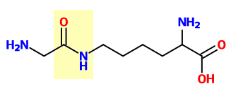 Glycine and Lysine linked by an isopeptide bond. Created using eMolecules. The isopeptide bond is highlighted yellow.